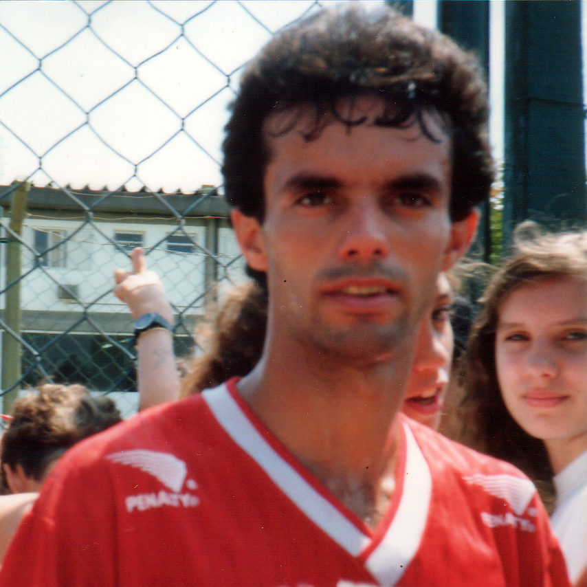 Jorge Ferreira da Silva, better known as Palhinha, was a Brazilian football player.